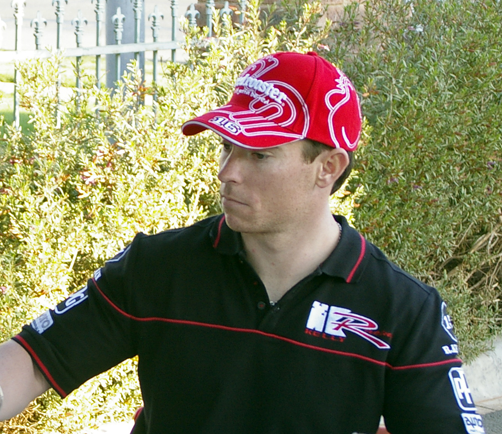 Mark McNally at an autographing session at Red Rooster in Wagga Wagga, New South Wales.